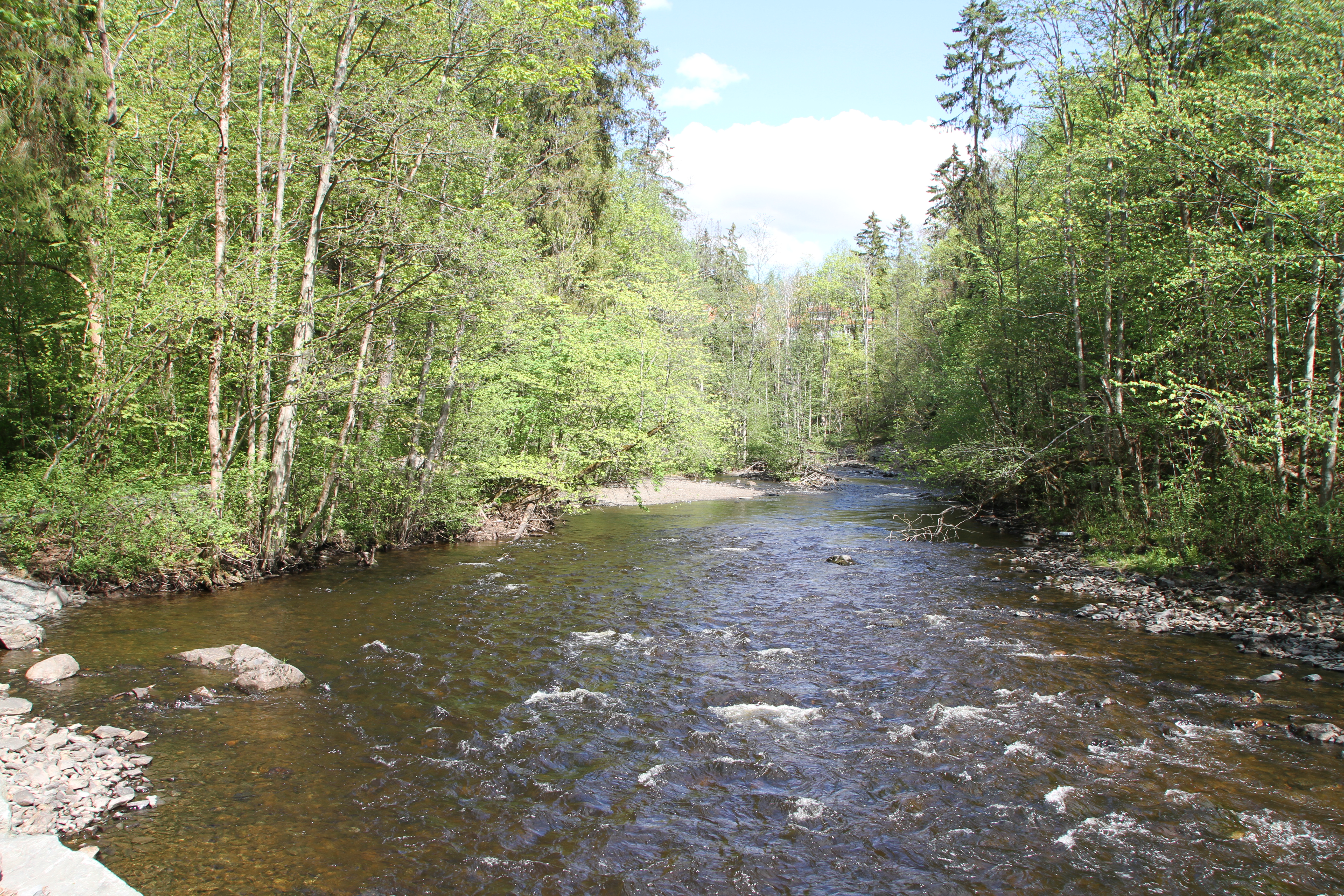 Lysakerelva river at Jar, Bærum (Norway)